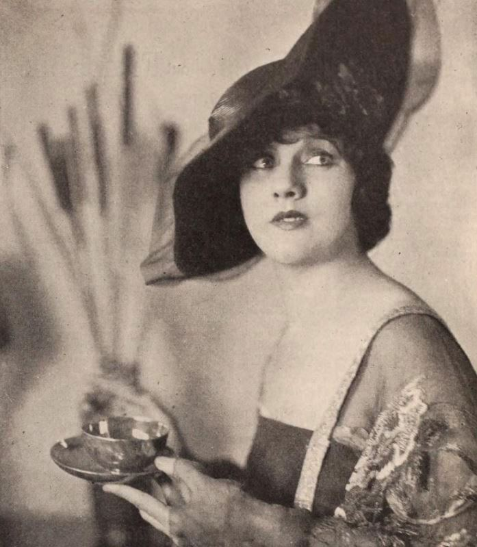 Actress Betty Blythe, on page 85 of the February 26, 1921 Exhibitors Herald.